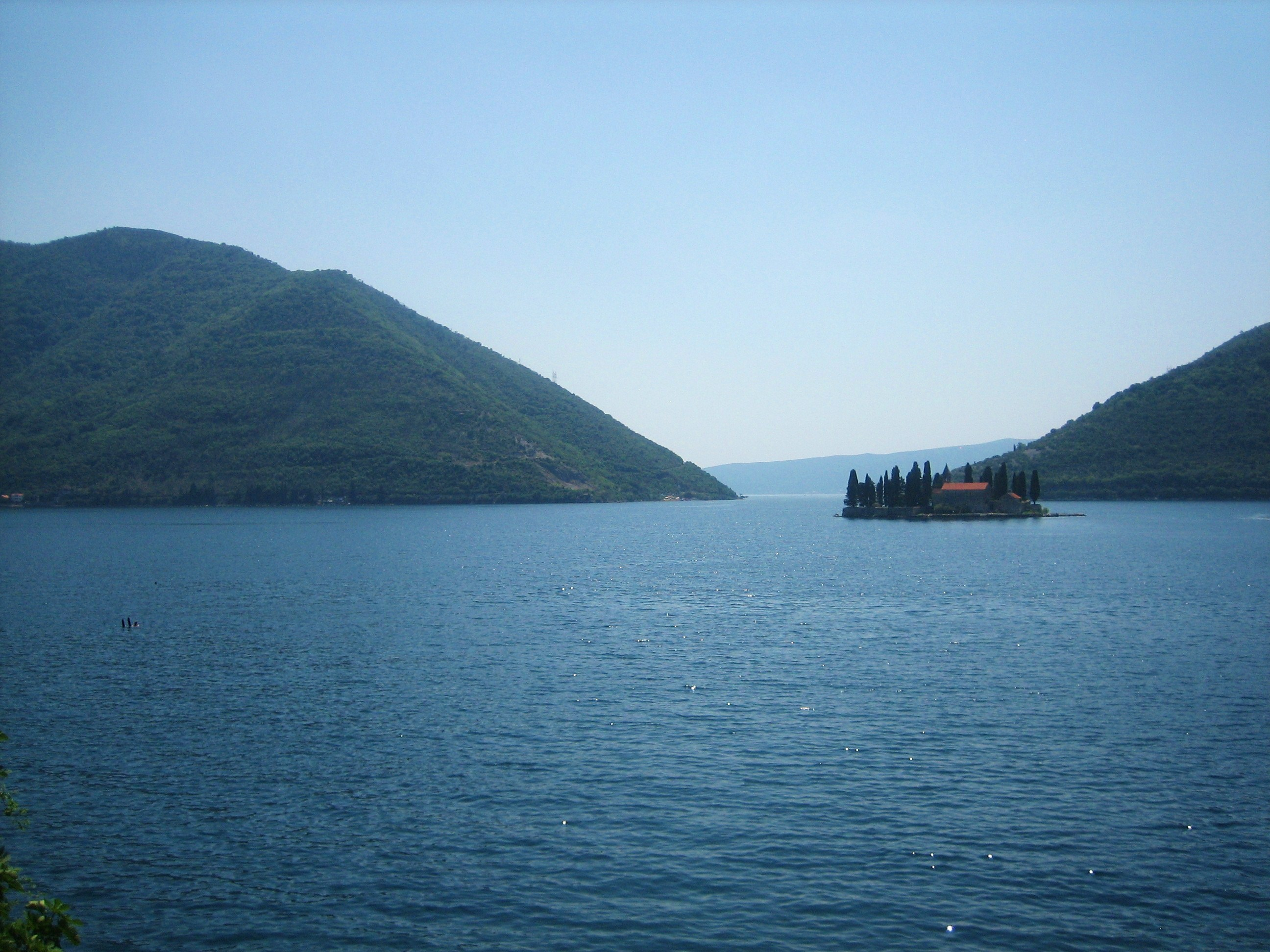 Bay of Kotor with Sveti Đorđe island as seen from Perast, Kotor, Montenegro